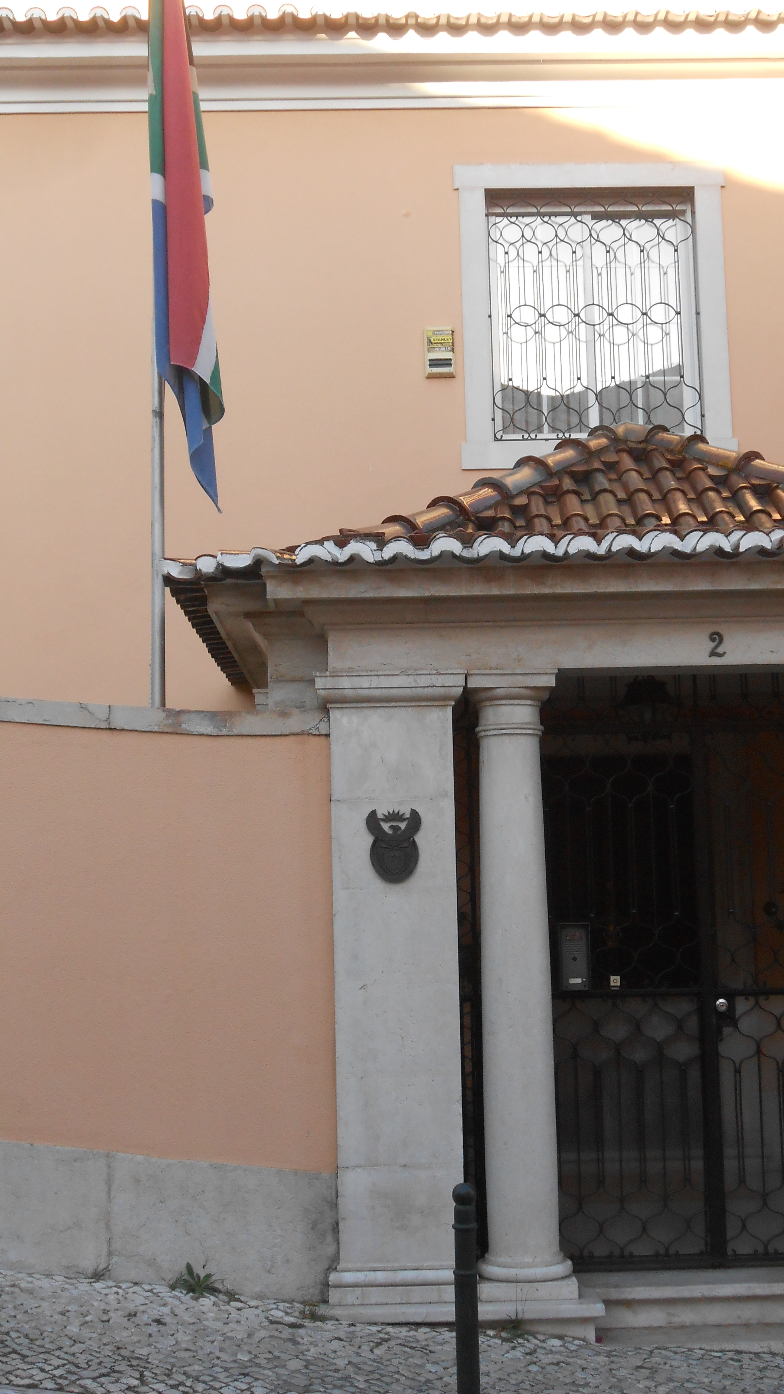 The residence of the south african ambassador to Portugal in Lapa, a neighbourhood in Lisbon.